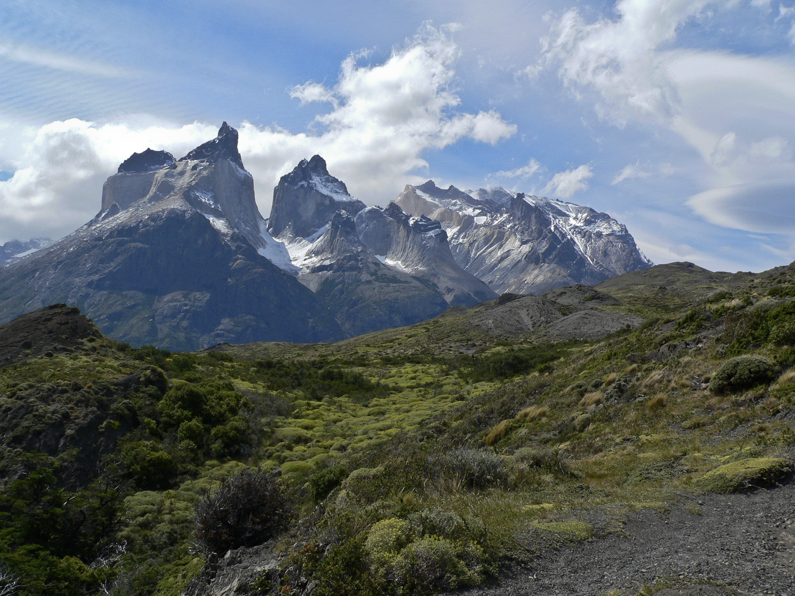 View from Salto Grande, Lago Pehoé, to the Torres del Paine